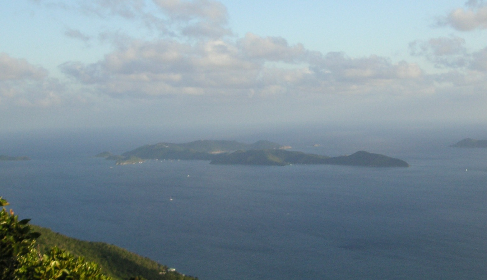 Photograph of Peter Island, taken from Sage Mountain on Tortola